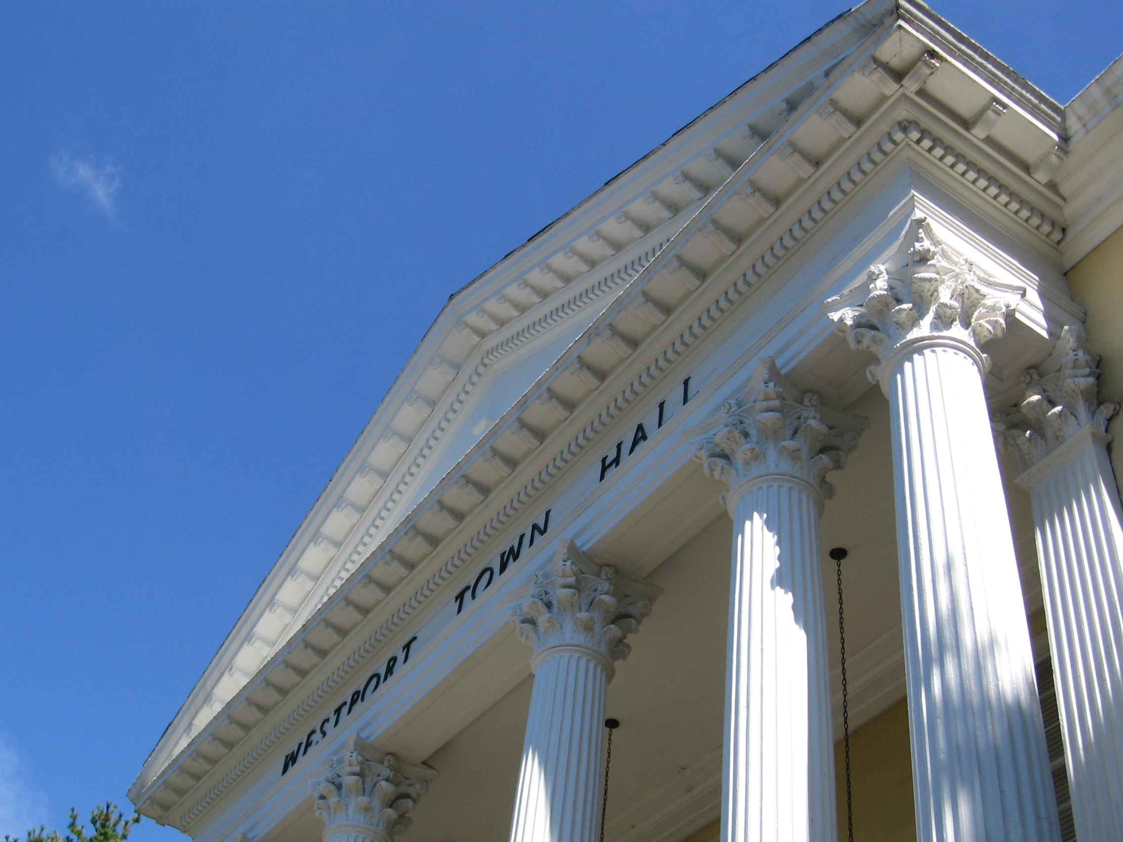 Dentils in context, front of Town Hall, Myrtle Avenue, Westport, Connecticut, U.S.A.